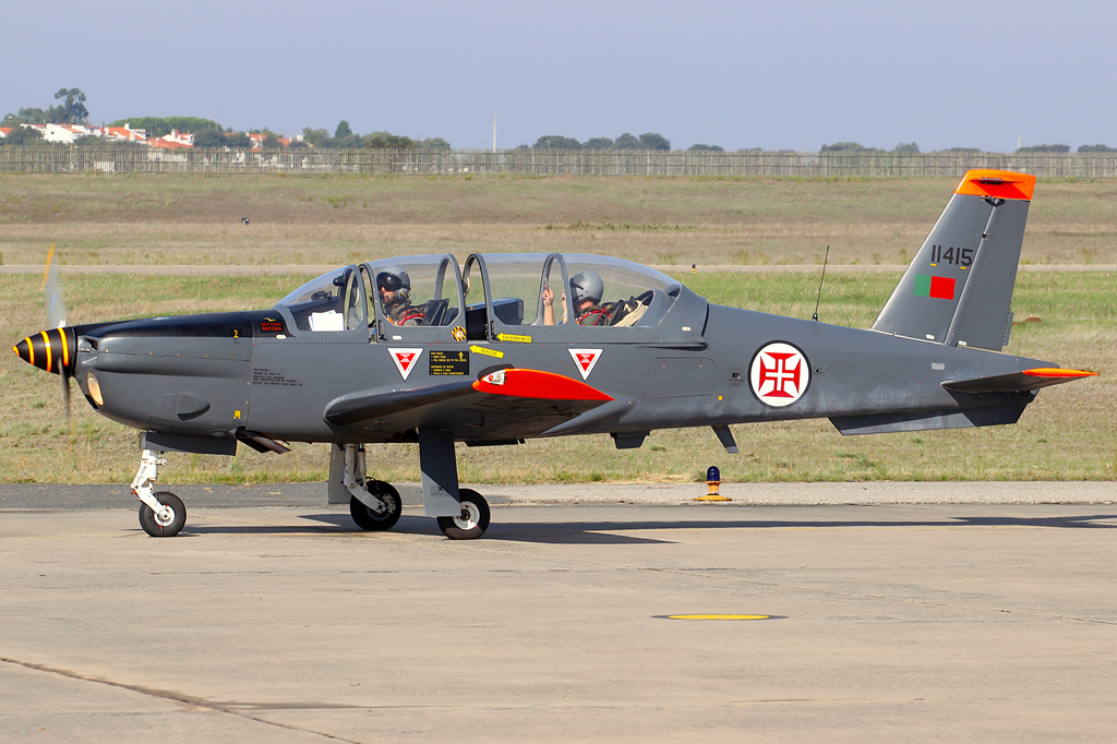 Portuguese Air Force TB-30 Epsilon at Beja Air Force Base.